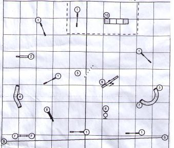 Fiffteen and Send Time dog agilty course , example course layout.